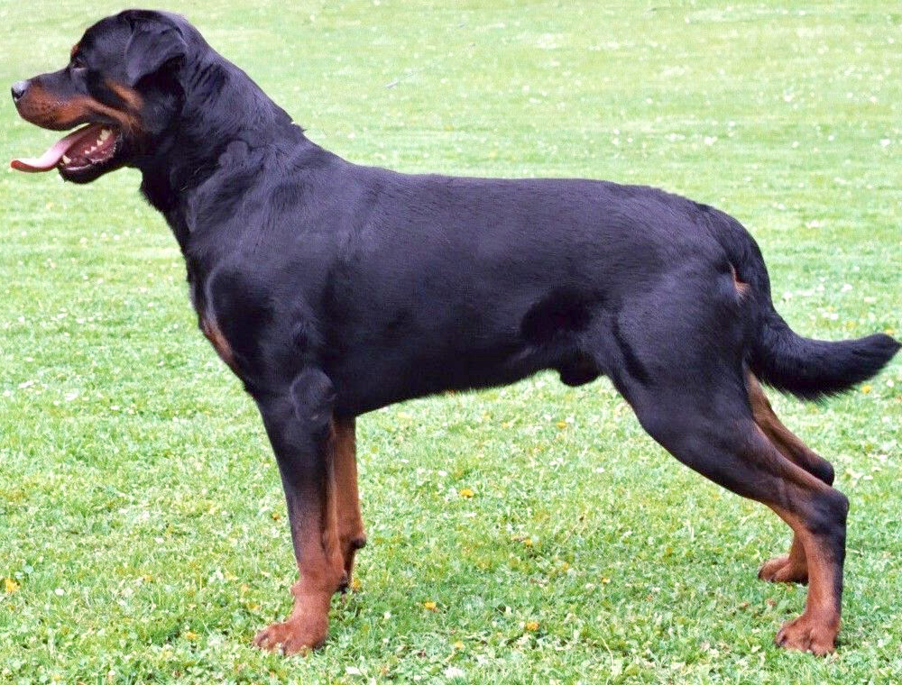 A rottweiler dog, seen from the side, standing, facing left. 1000x760x24. JPG. 306.26 KB